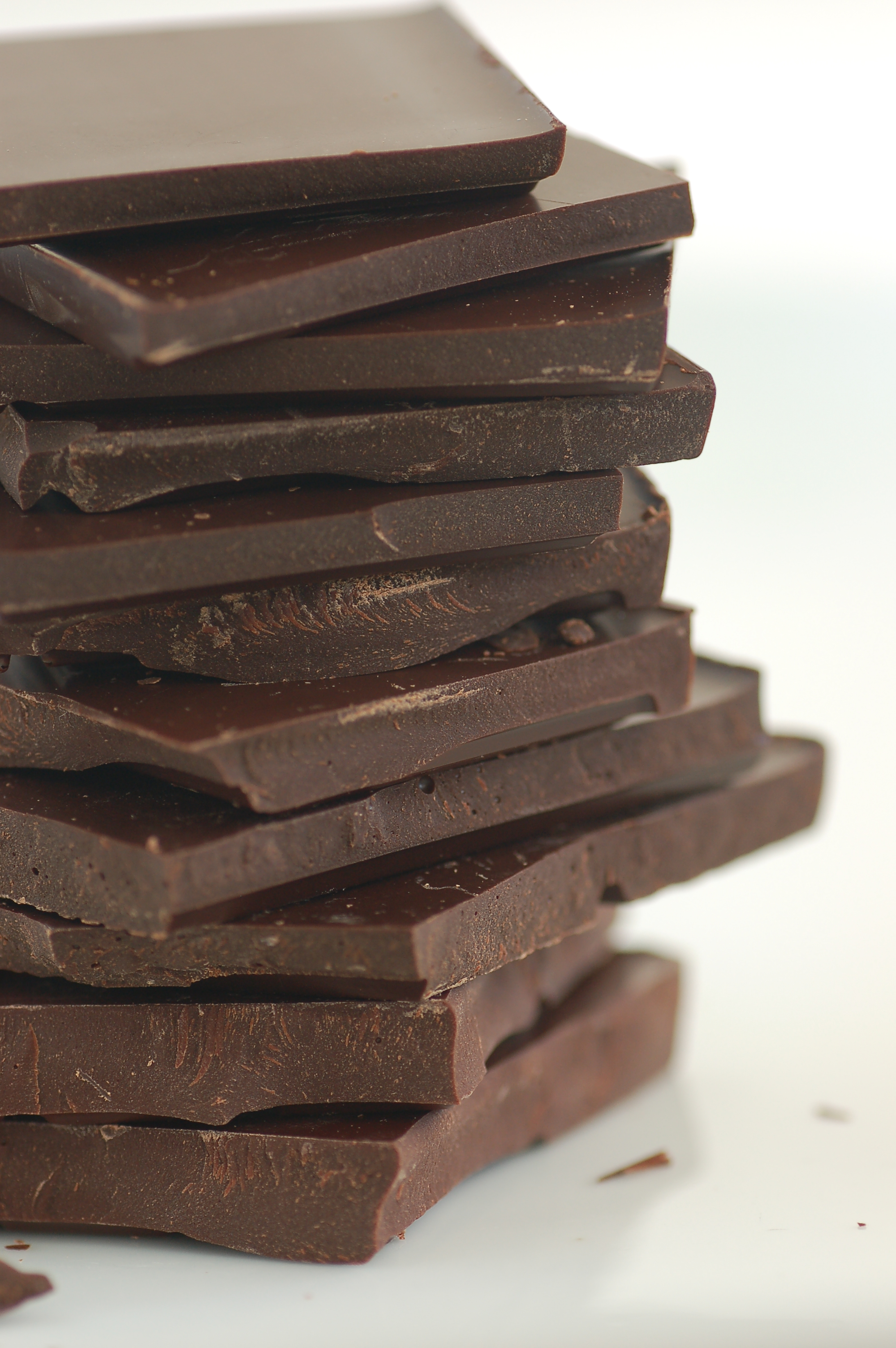 Dark chocolate.